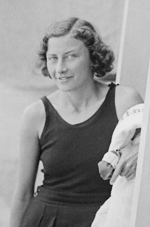 English swimmer Joyce Cooper resting at the Domain Baths during the New South Wales Championships, New South Wales, 8 January 1934